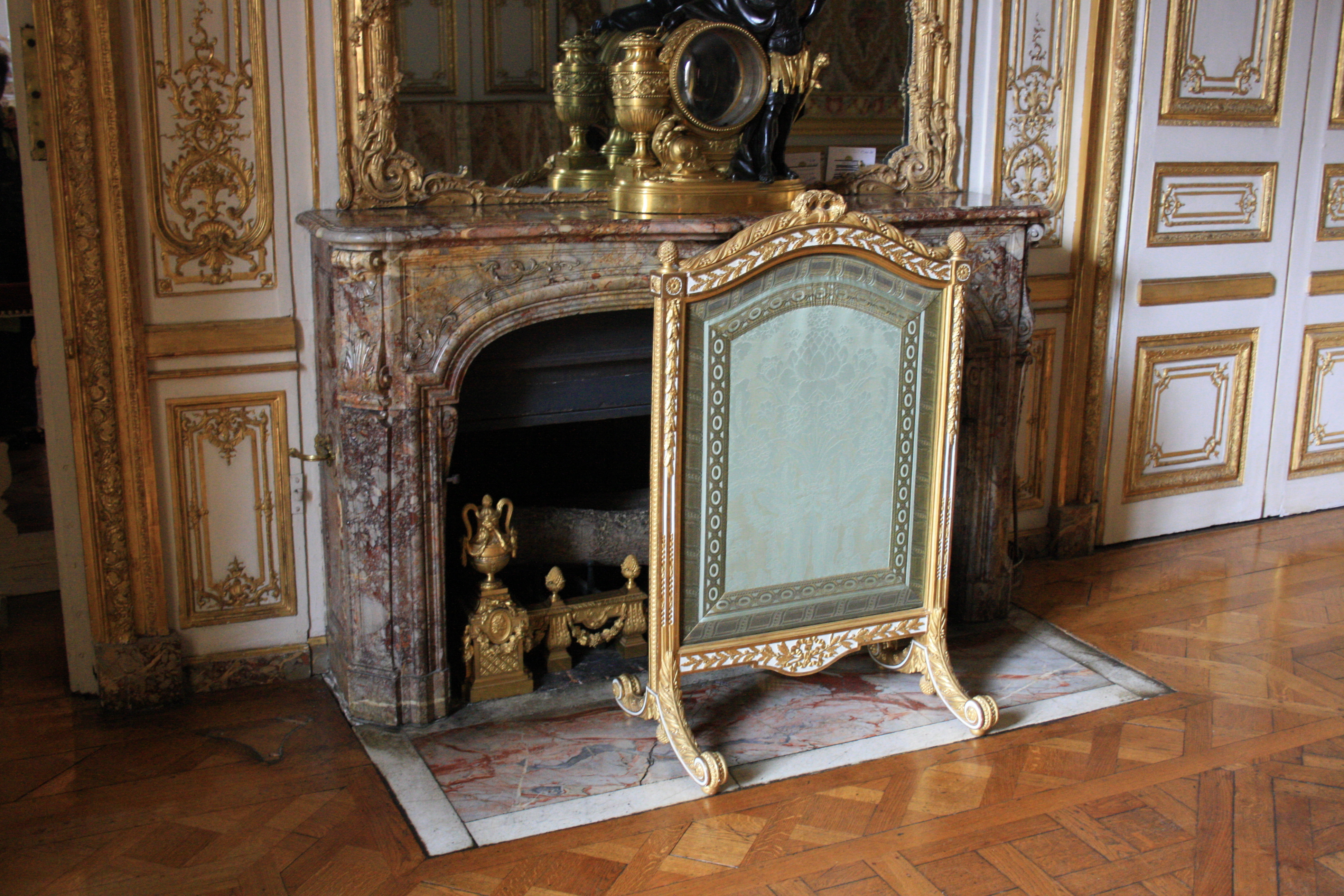 Petit appartement du roi (small apartment of the king) in the Palace of Versailles in Versailles, France